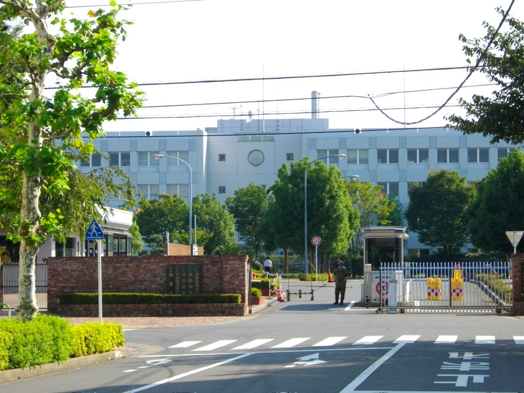 JSDF Jujo Base